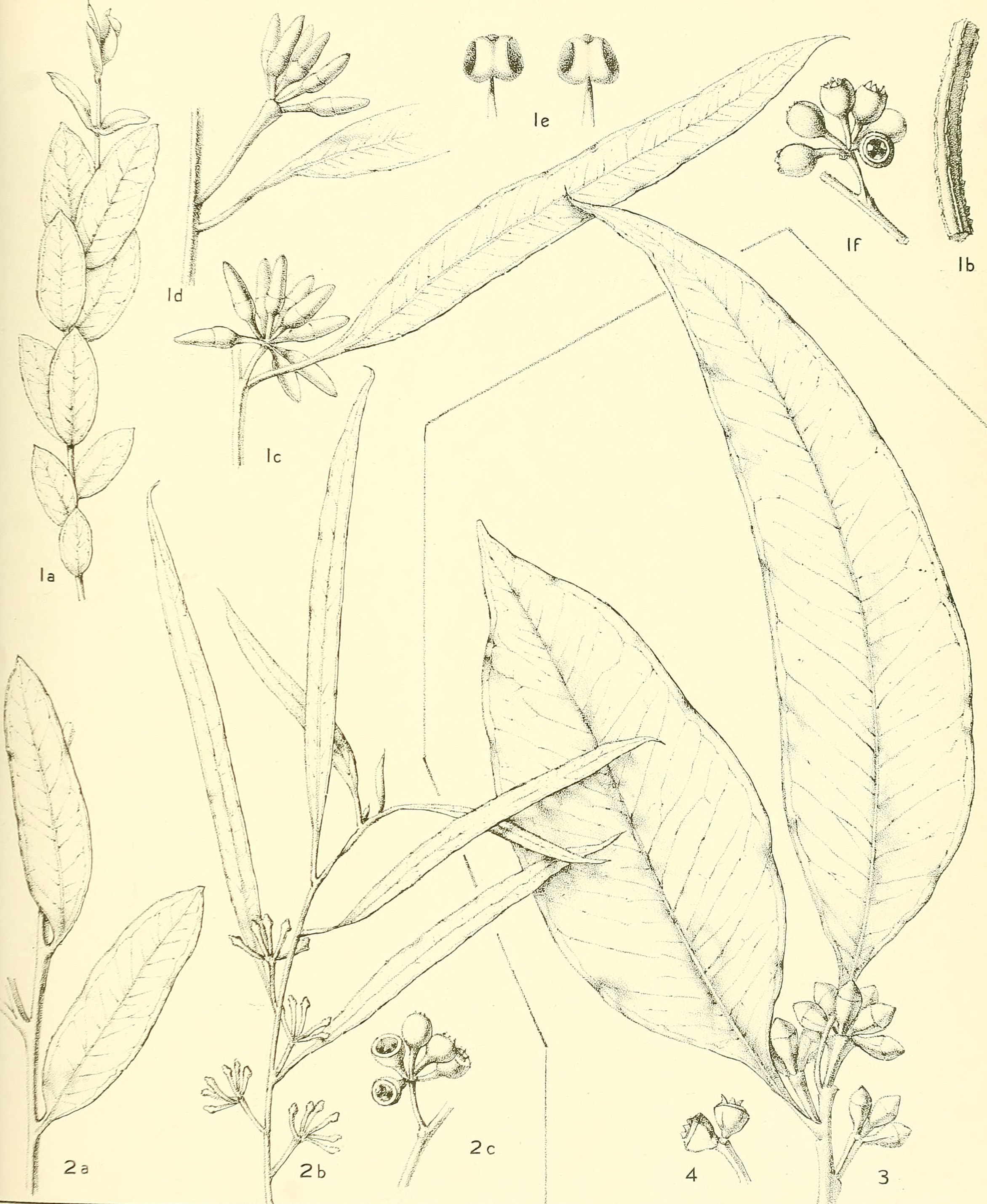 Title: A critical revision of the genus Eucalyptus Year: 1903 (1900s) Authors: Maiden, J. H. (Joseph Henry), 1859-1925 Subjects: Eucalyptus Publisher: Sydney, W. A. Gullick, government printer Text Appearing Before Image: Crit. Rev. Eucalyptus. Pl. 241. Text Appearing After Image: EUCALYPTUS LONGICORNIS F.v.M. (1,2). (See also Plate 66.) E. PROPINQUA Deane and Maiden (3, 4). (See also Plate 121.) MFIockfo-n.del-Gt-lihh.